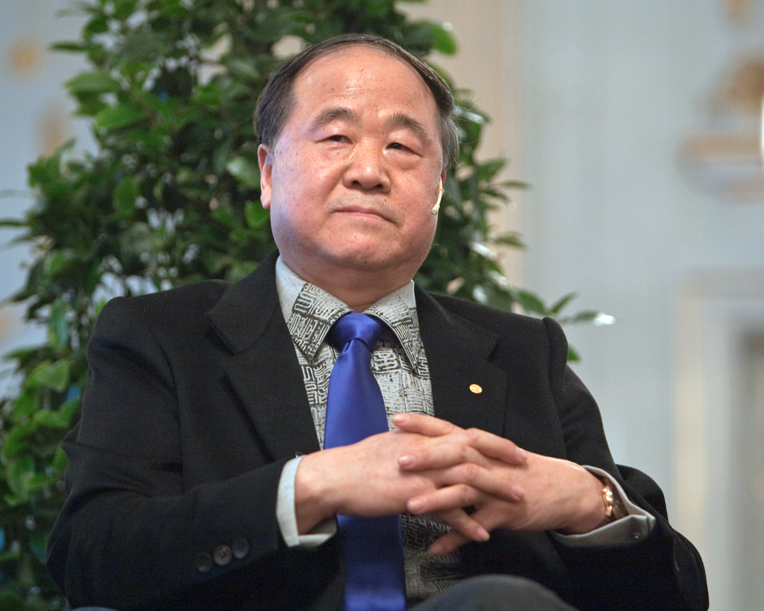 Mo Yan, Nobel Prize winner in literature 2012